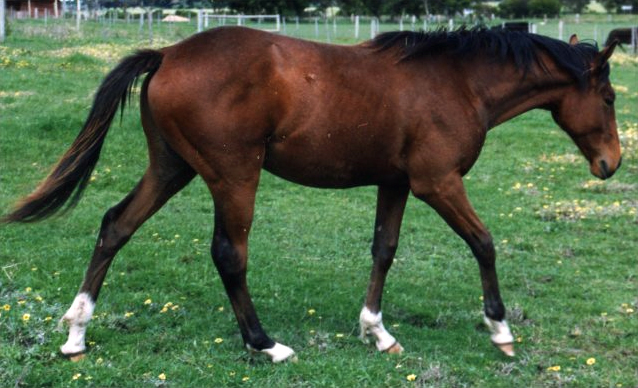 Australian Stock Horse 3 year old colt by Aushorse Horse Photos